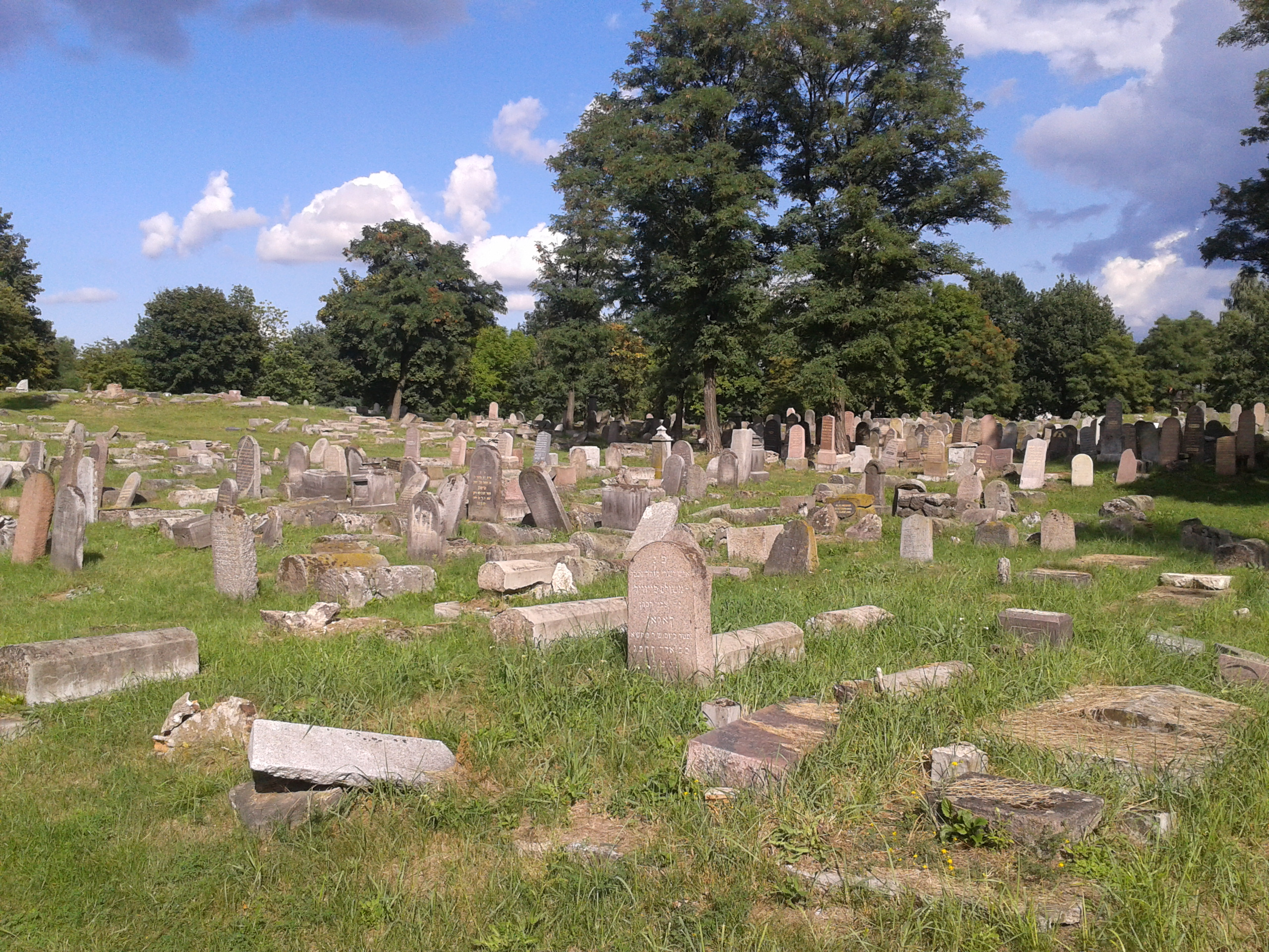 Jewish cemetery in Białystok, Wschodnia street